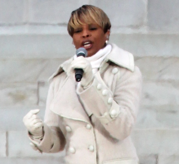 Mary J. Blige performing at the We Are One:The Obama Inaugural Celebration at the Lincoln Memorial concert.